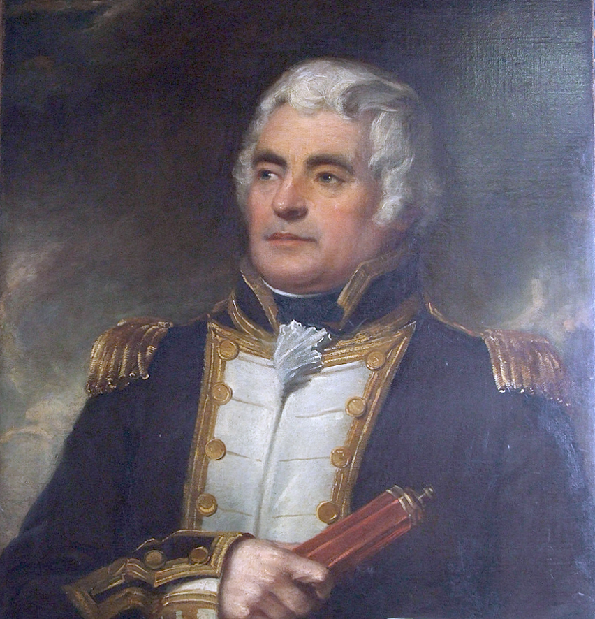 Captain James Bowen (1751-1835) oil on canvas 77.5x 63.8 cm 19th century